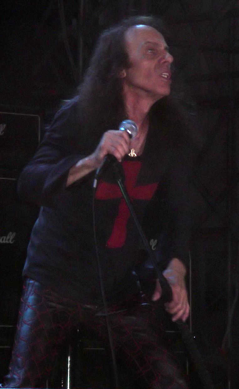 Ronnie Dio